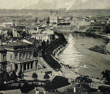 Žygimantų-street in Vilnius, historical foto